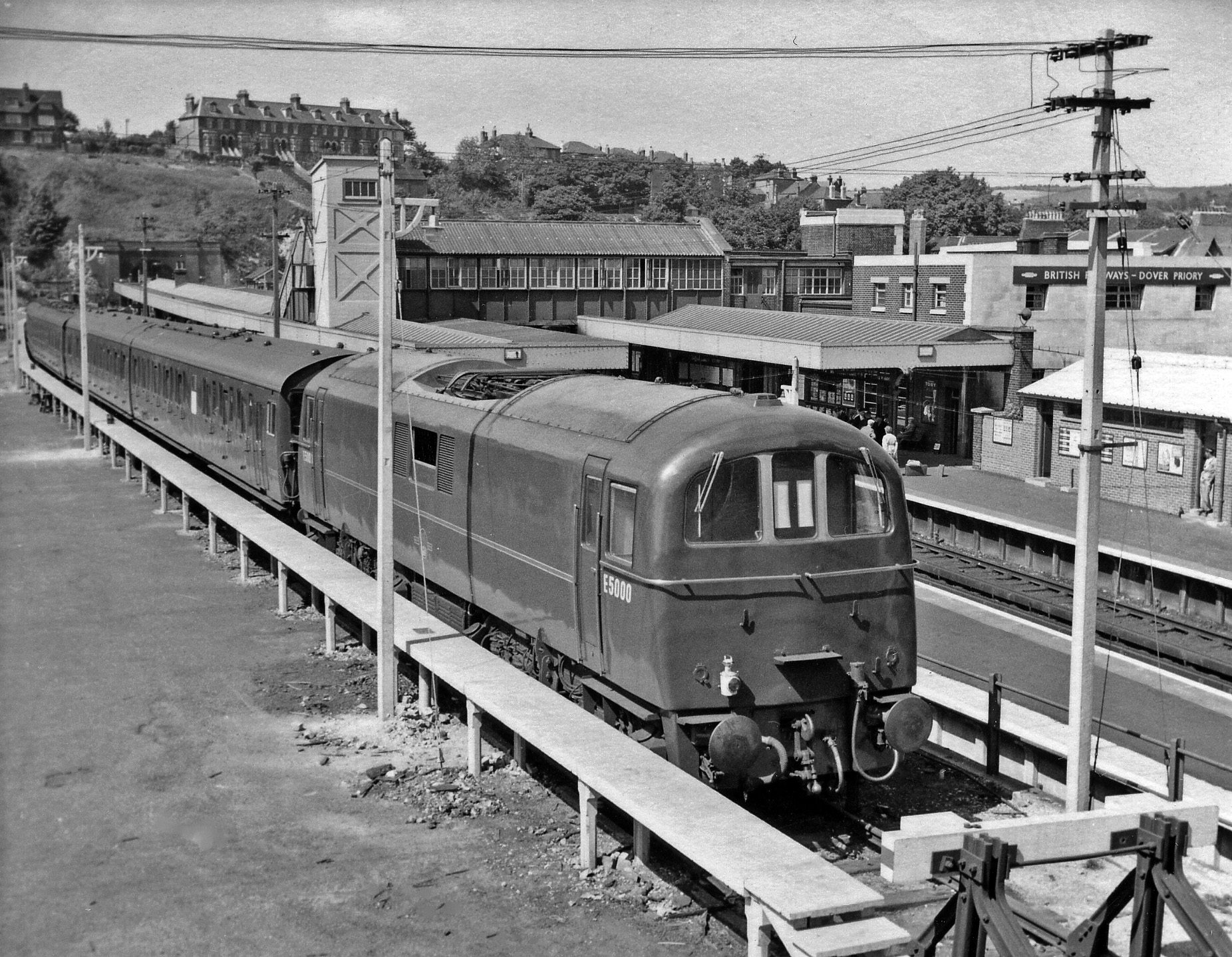 Dover Priory Station, with SR electric locomotive. View northward, towards Priory Tunnel and the lines to Canterbury and London, Deal and Ramsgate. The locomotive, BR 2,550hp 750v Bo-Bo No. E5000, is at a bay platform, apparently with an electric multiple-unit train. Phase 1 of the Kent Coast Electrification (the ex-London, Chatham & Dover lines east of Gillingham) had just been completed that month, June 1959. These electric locomotives were employed primarily for freight working.